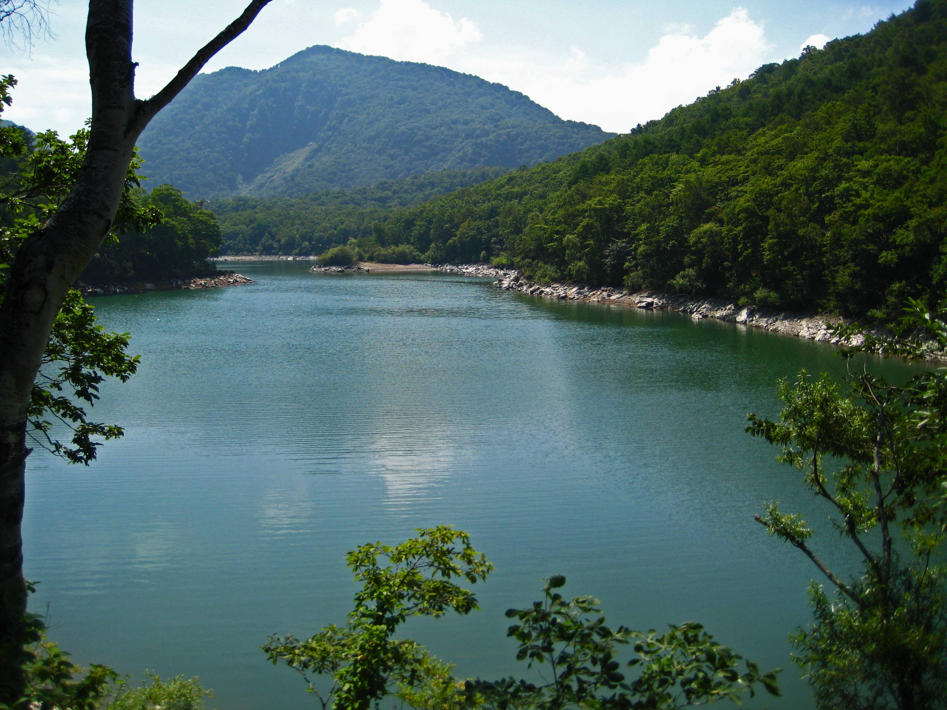 Biwaike.